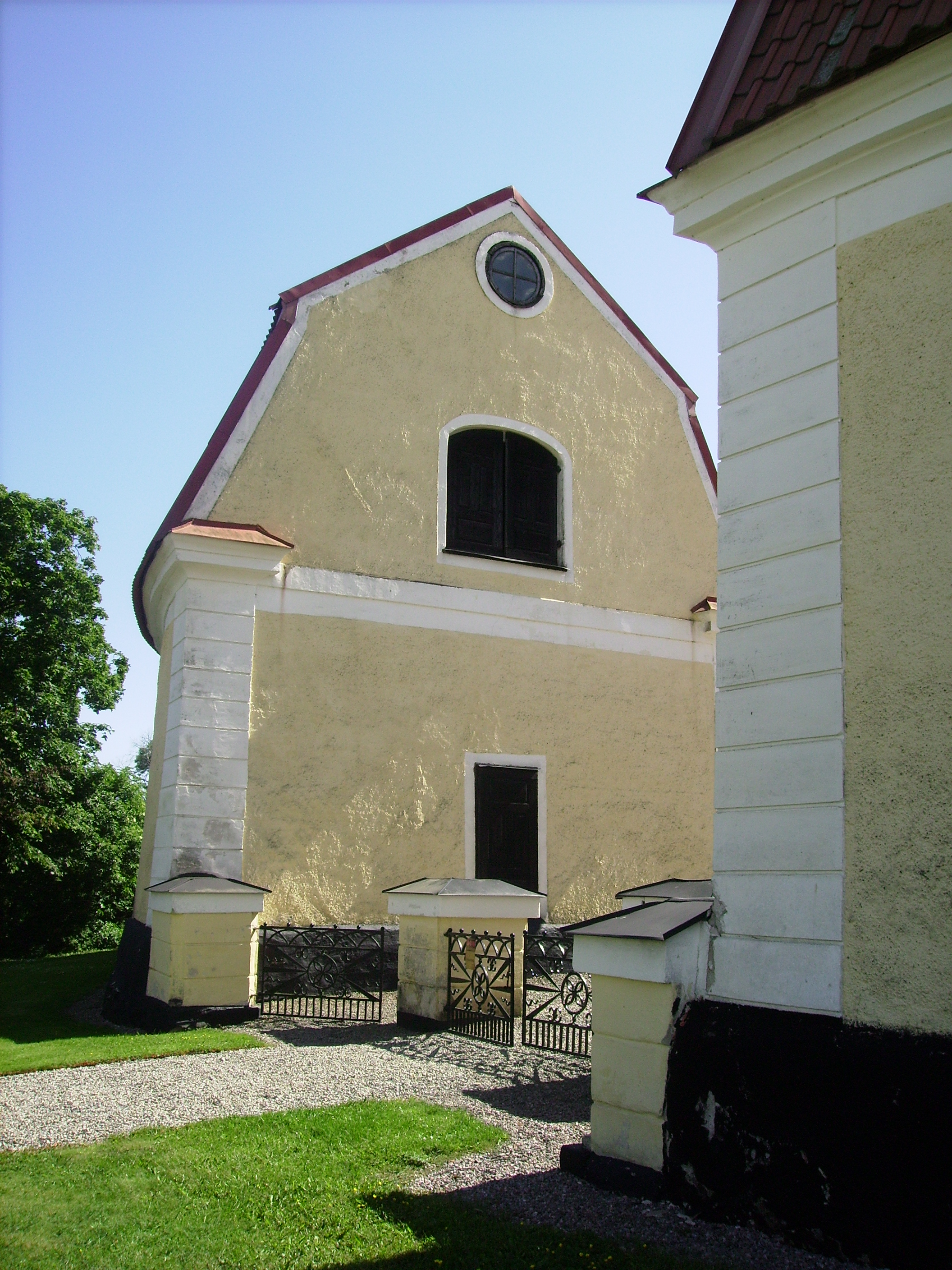 Picture of Öster Malma in Södermanland